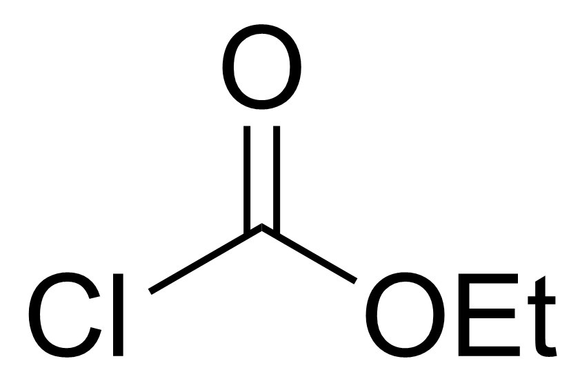 Ethyl chloroformate